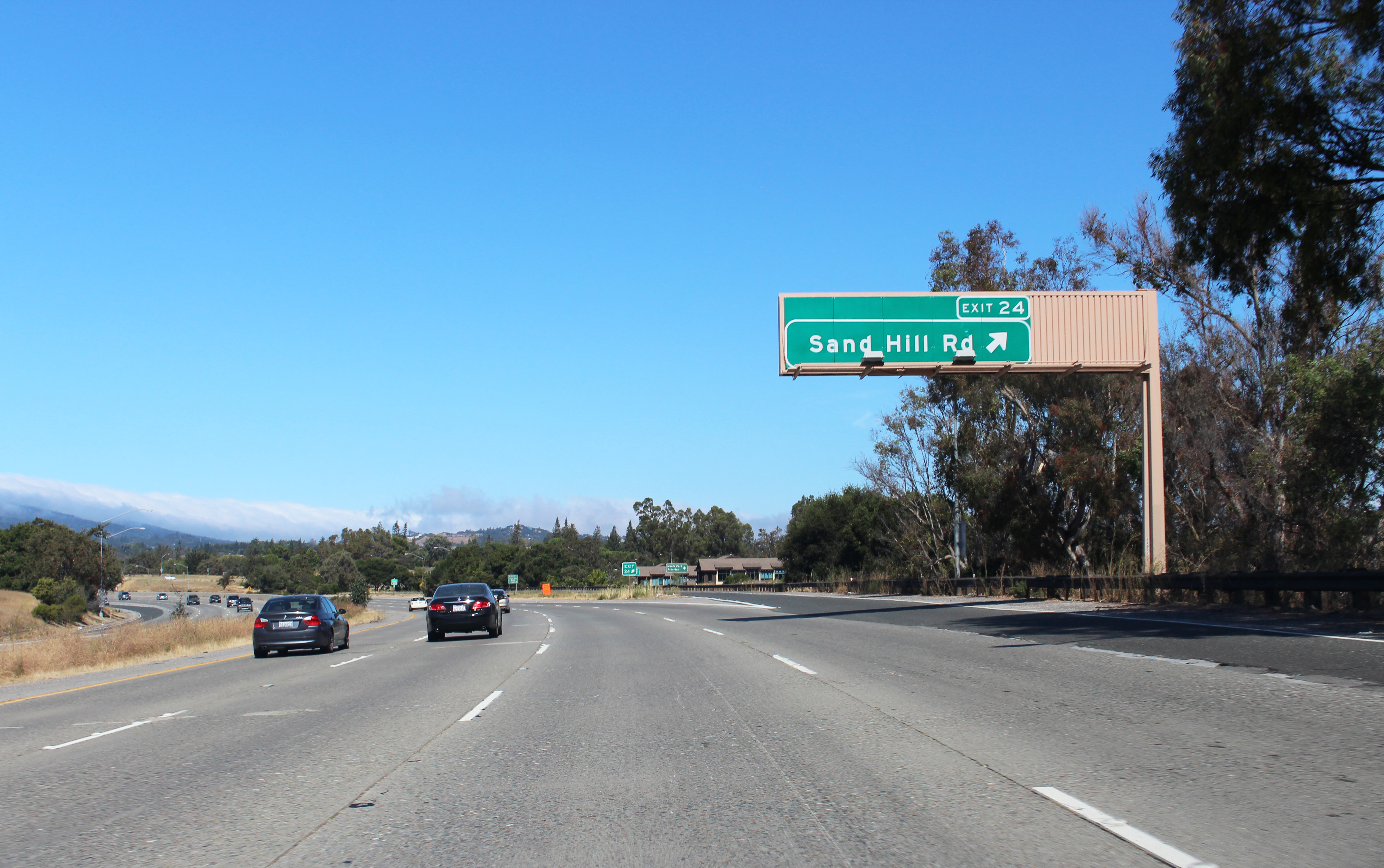 The exit for Sand Hill Road as seen by northbound vehicles on Interstate 280. Photographed by user Coolcaesar on September 3, 2016.